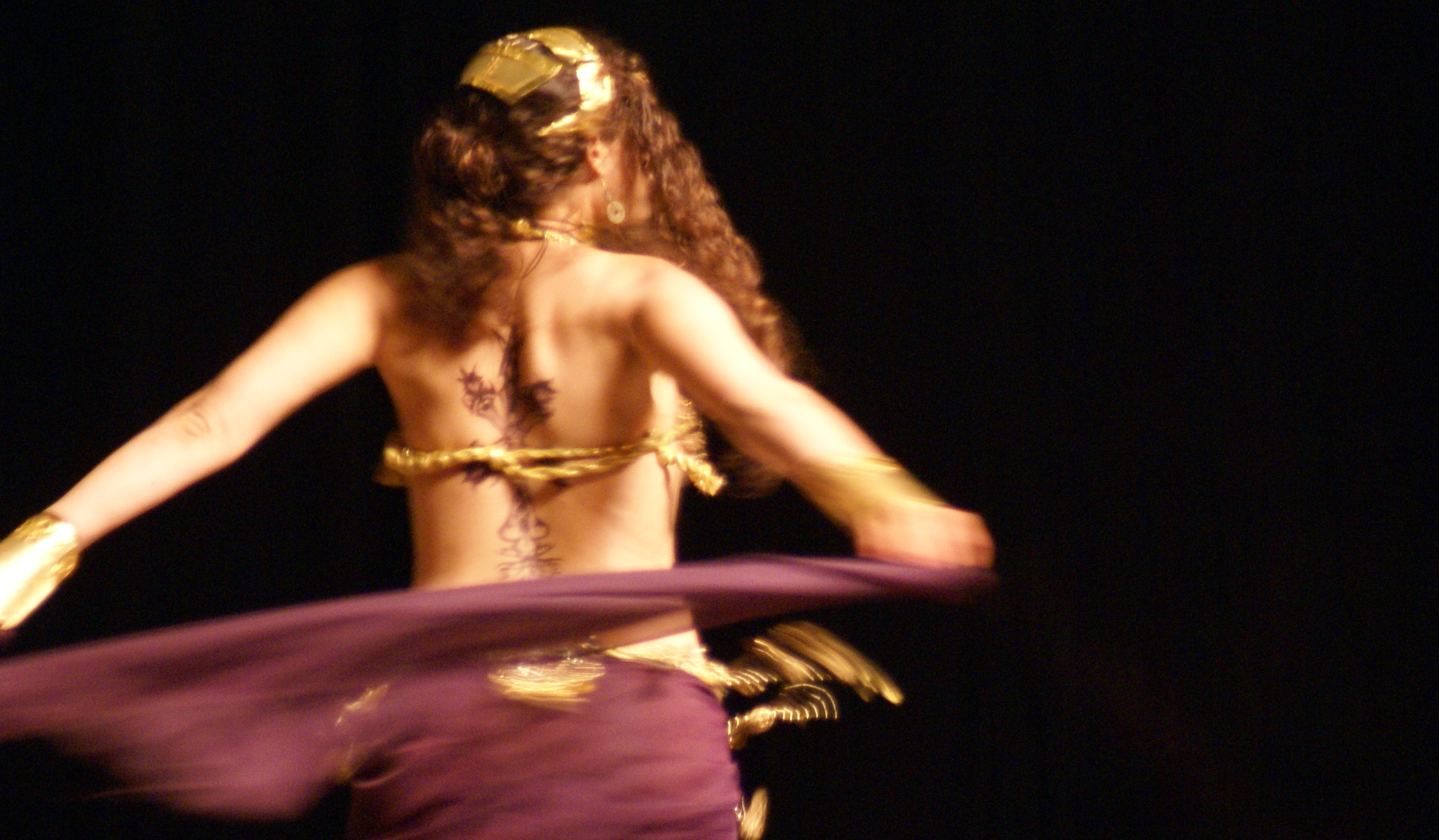 A female cosplayer portraying priestess Mullenkamp from Vagrant Story at Otakon 2006 in Baltimore, Maryland.